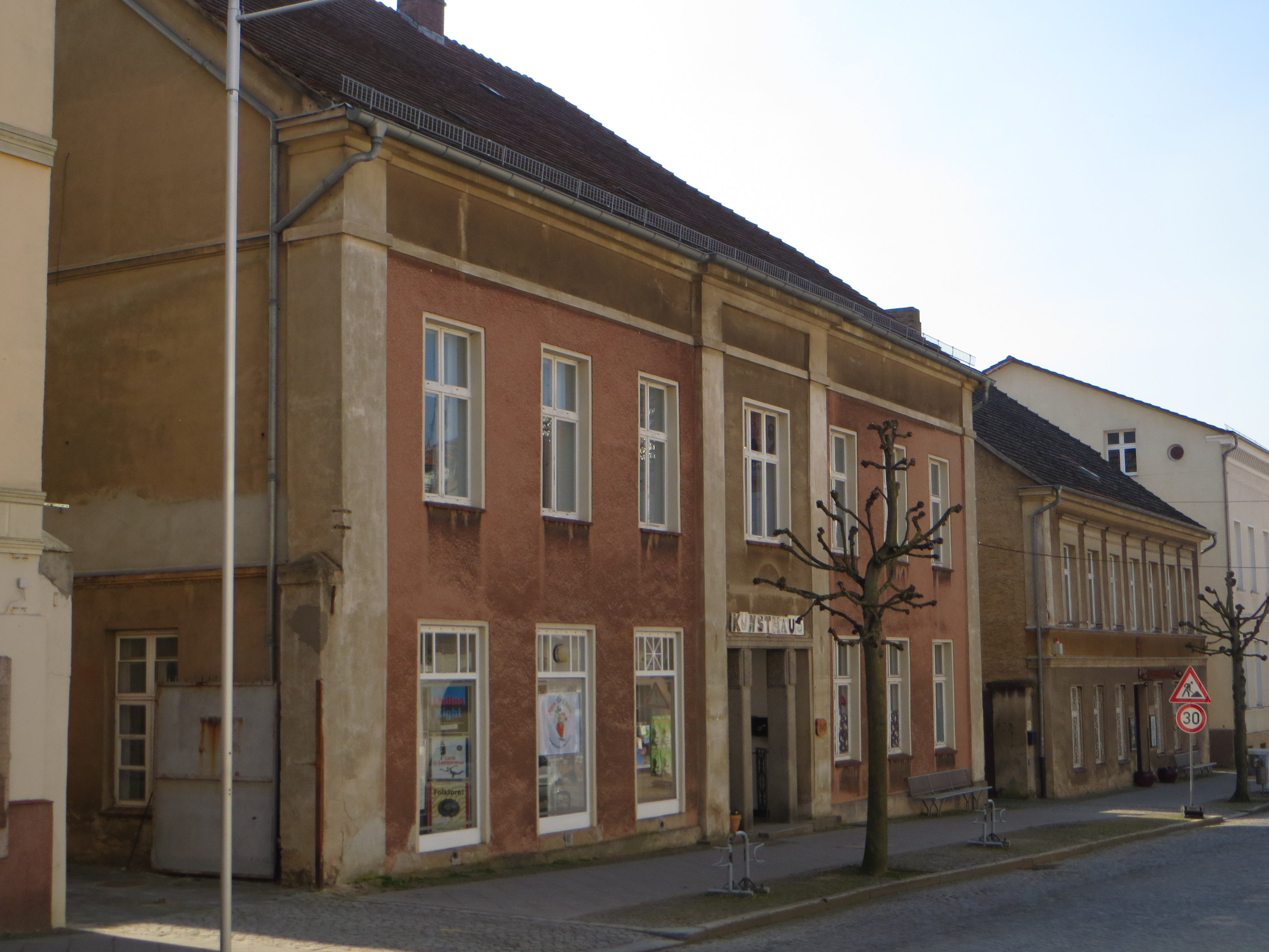 Neustrelitz Schlossstrasse 2 & 3, Kunsthaus und Stadtmuseum